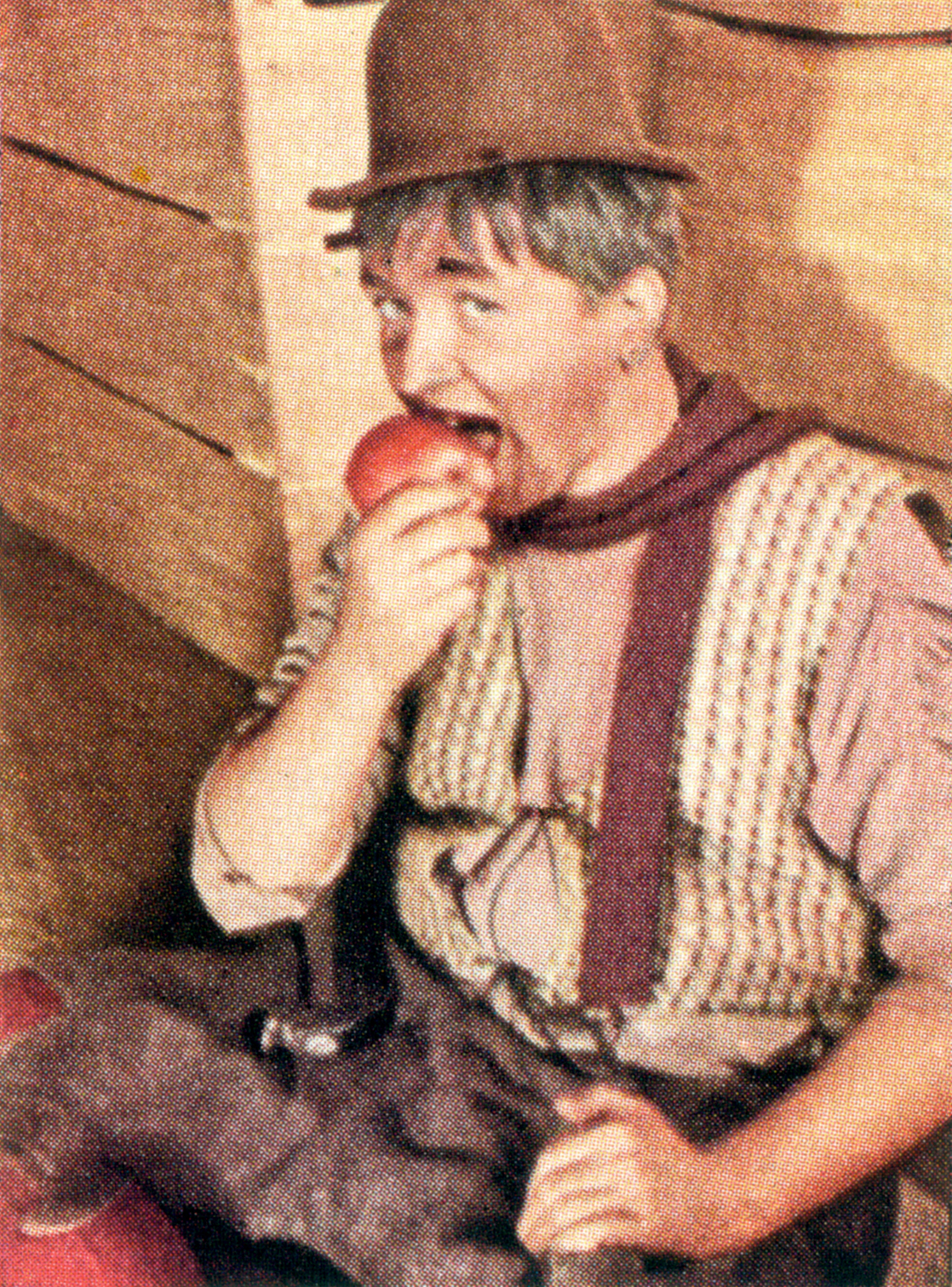 Photograph of Hiram Sherman in the Mercury Theatre stage production of The Shoemaker's Holiday, part of a feature story titled "The Man from Mercury" (pp. 98–102)